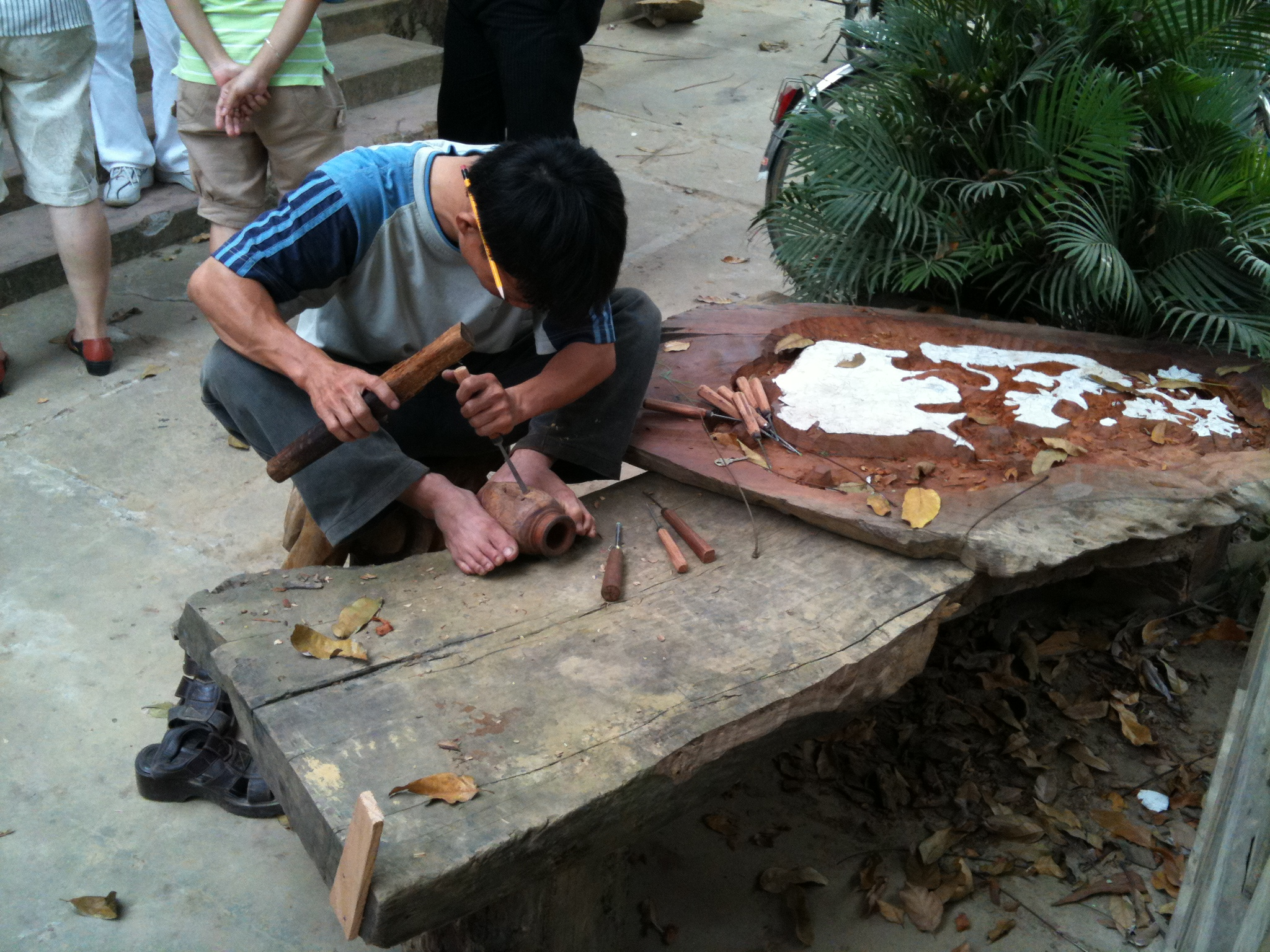 A woodworker (possibly Huynh Suong, son of master carver Huynh Ri) carves designs into a wooden pot, which he holds between his feet. Kim Bong village, Hoi An, Vietnam.